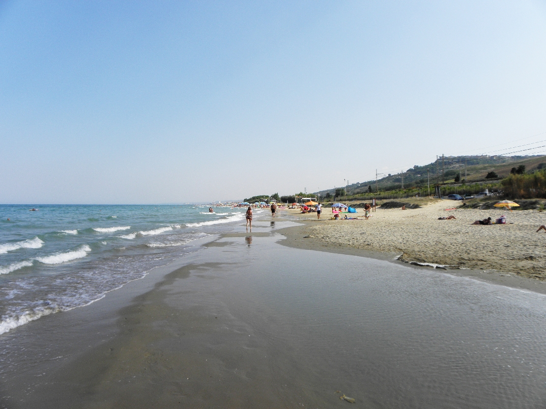 Torre di Cerano